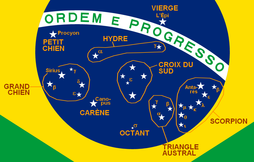 Constellations on the flag of Brazil